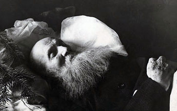 Kropotkin on his Deathbed